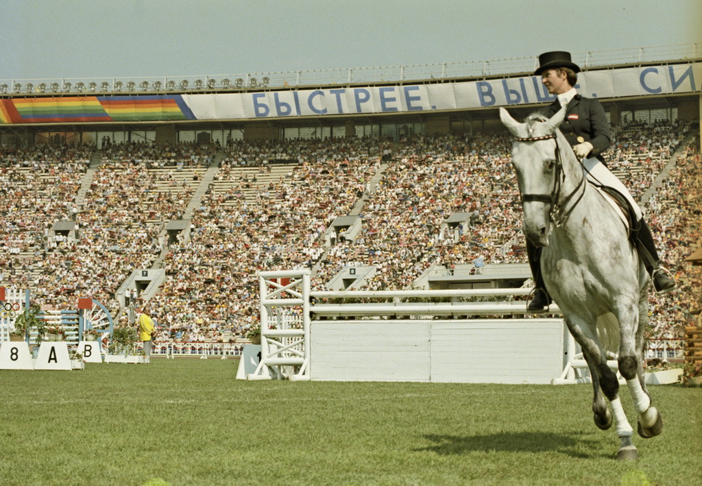 “Austrian athlete Elisabeth Max-Theurer”. Elisabeth Theurer (Austria), Olympic champion in horse ride for the Grand prize, performing on Mon Cherie. XXII Summer Olympics (July 19 - August 3, 1980). Central Lenin Stadium.